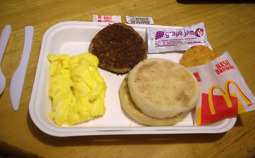 中文（香港）: Big Breakfast of McDonald's